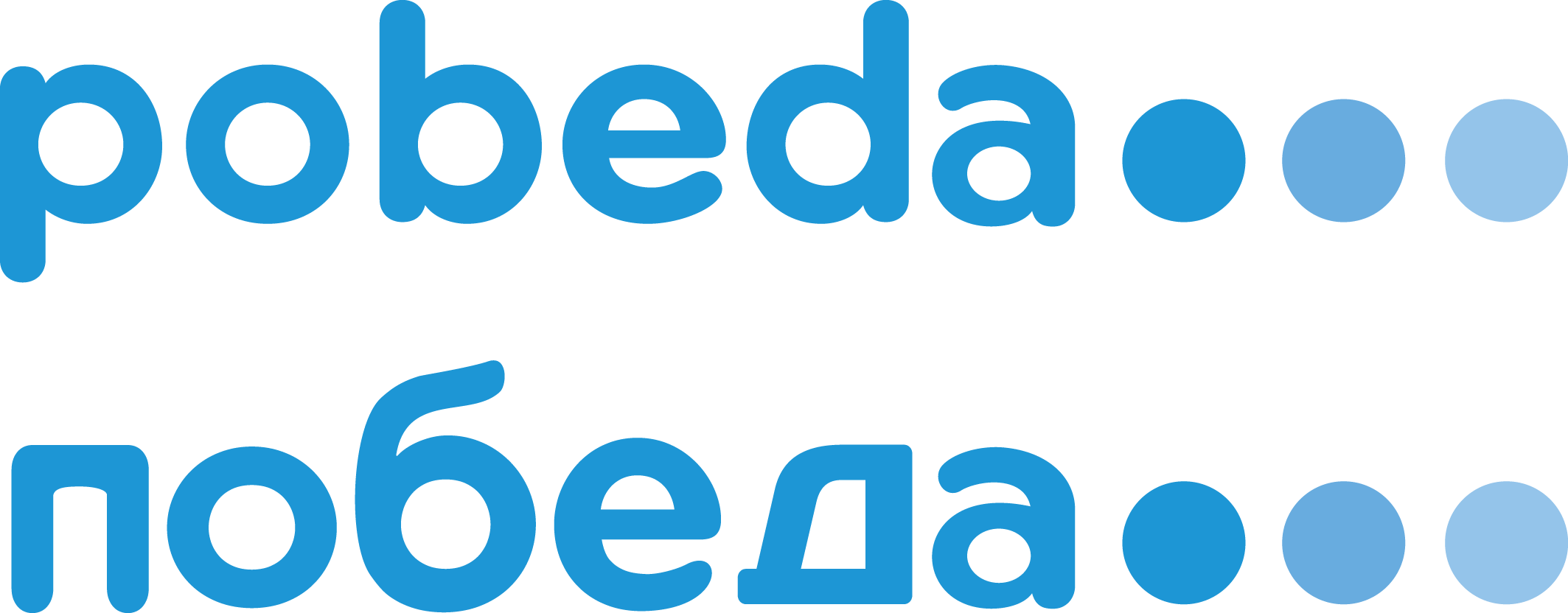 Pobeda Airlines (Russia) official logo